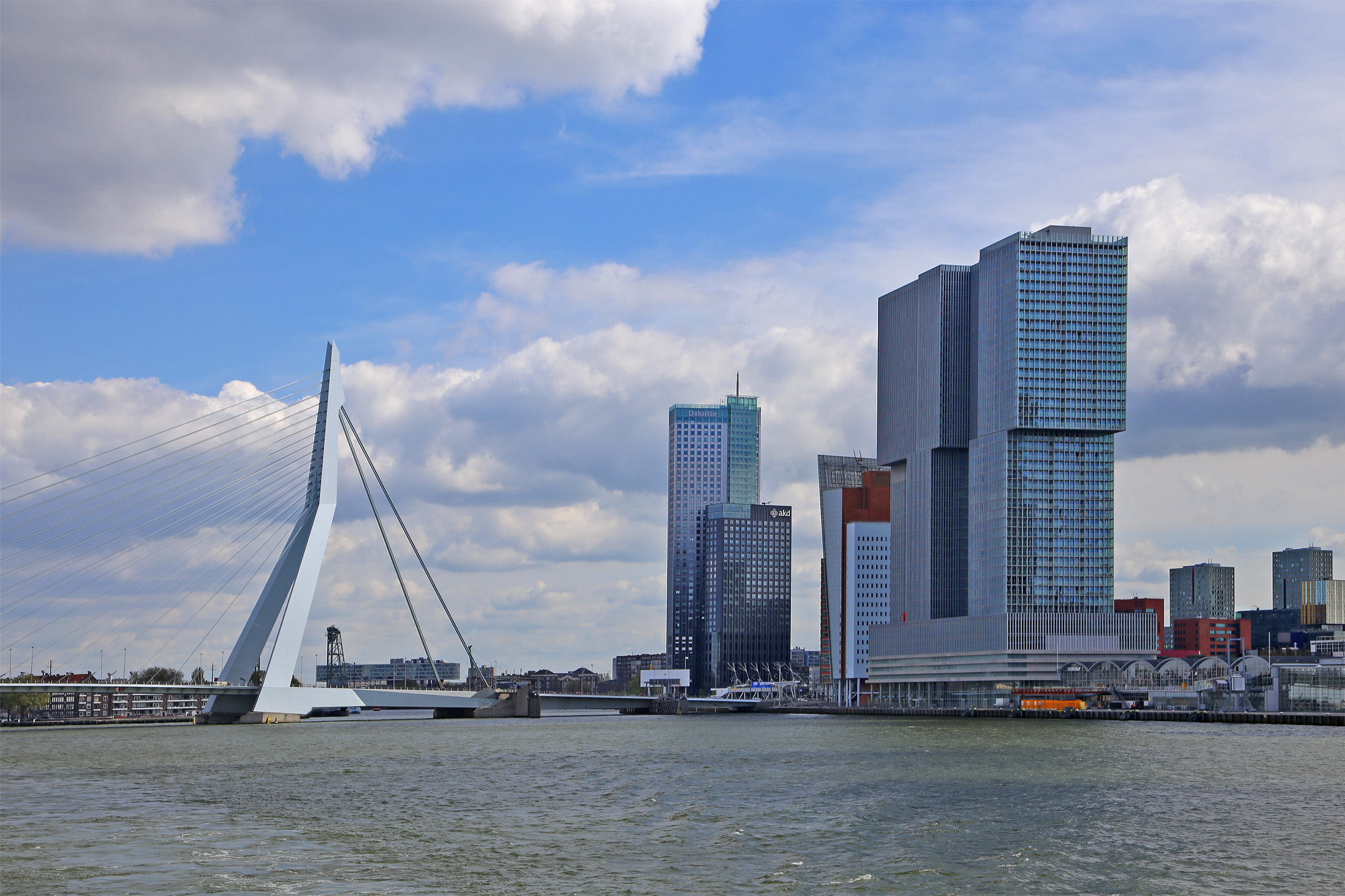 Erasmus Bridge (Erasmusbrug) is an 802-meter long cable-stayed bridge in Rotterdam.